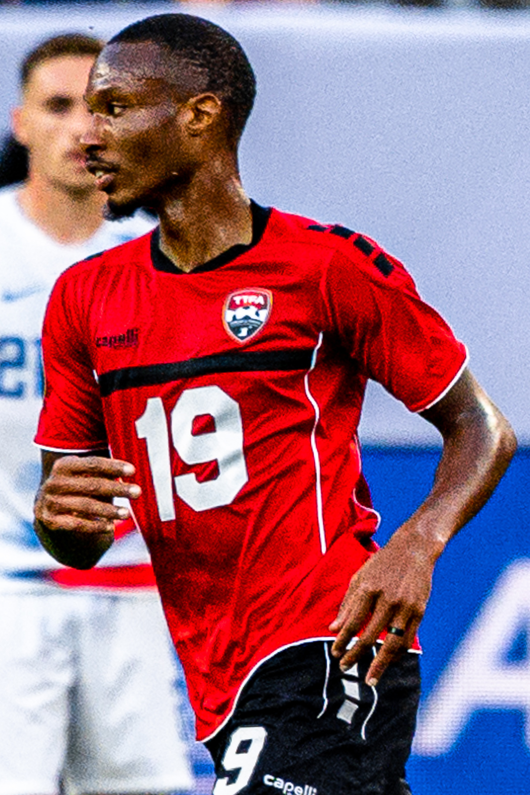 USMNT vs. Trinidad and Tobago